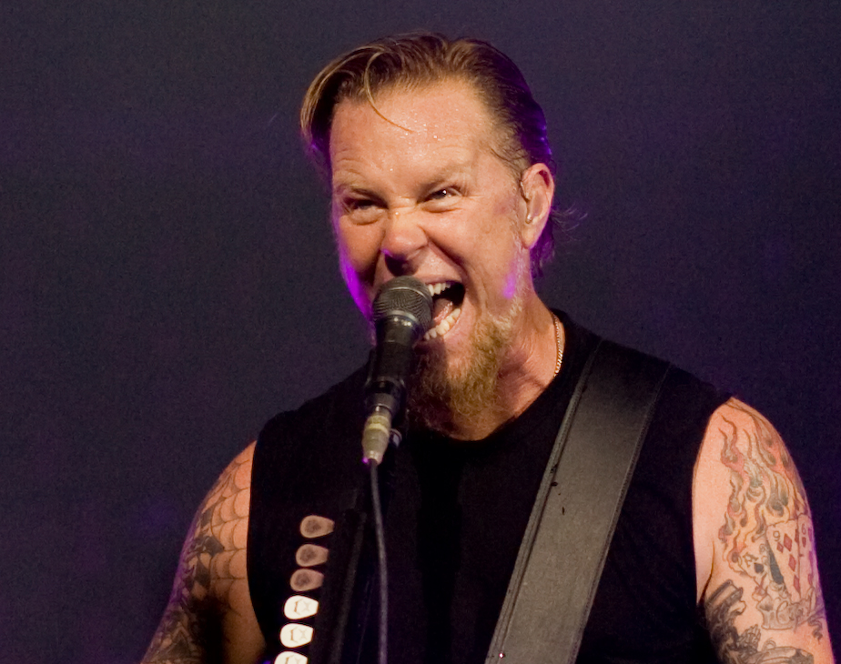 "James Hetfield of Metallica performing live at O2 in London, UK, 15 September 2008 "